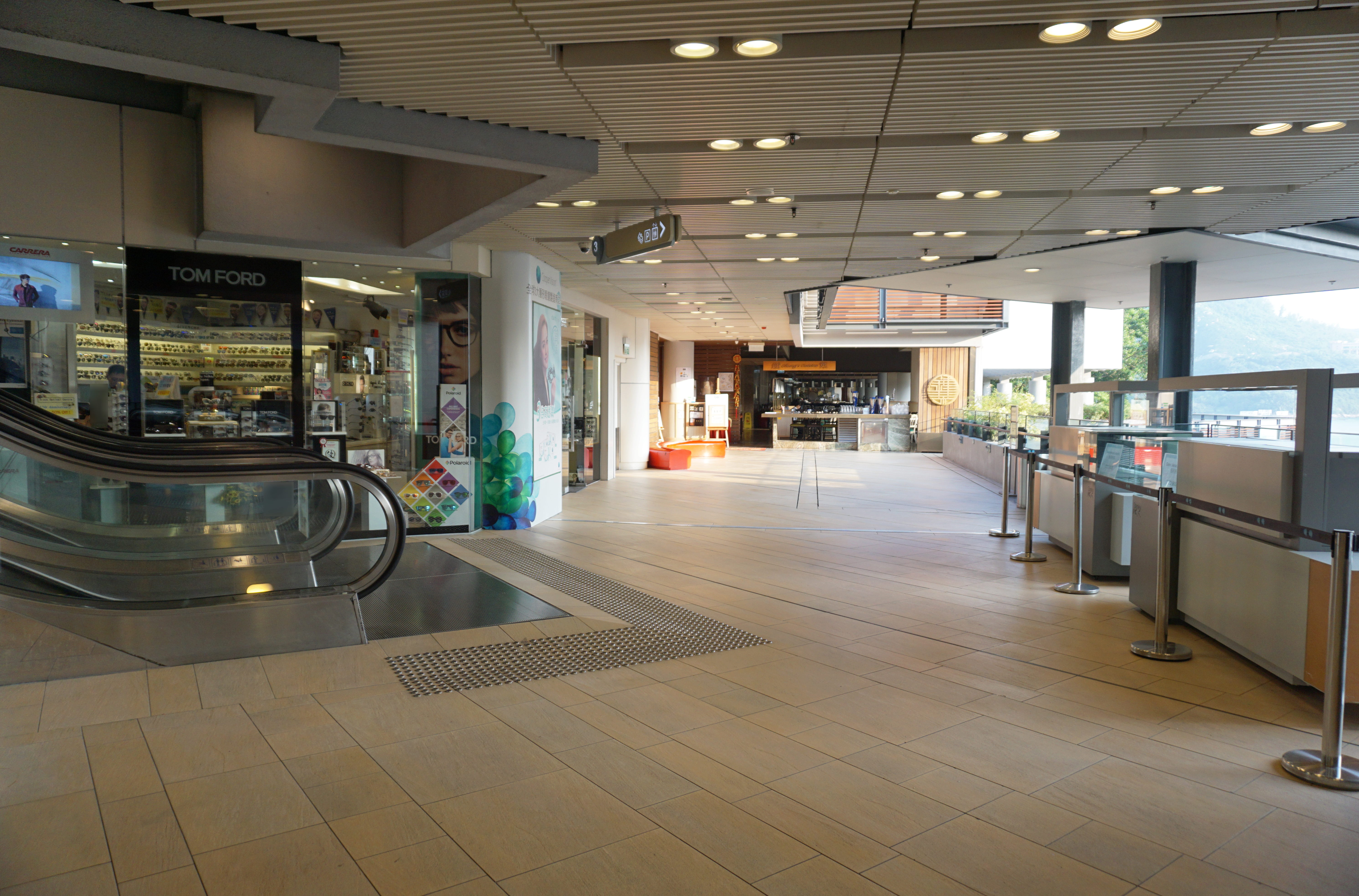 Stanley Plaza in Stanley, Hong Kong.